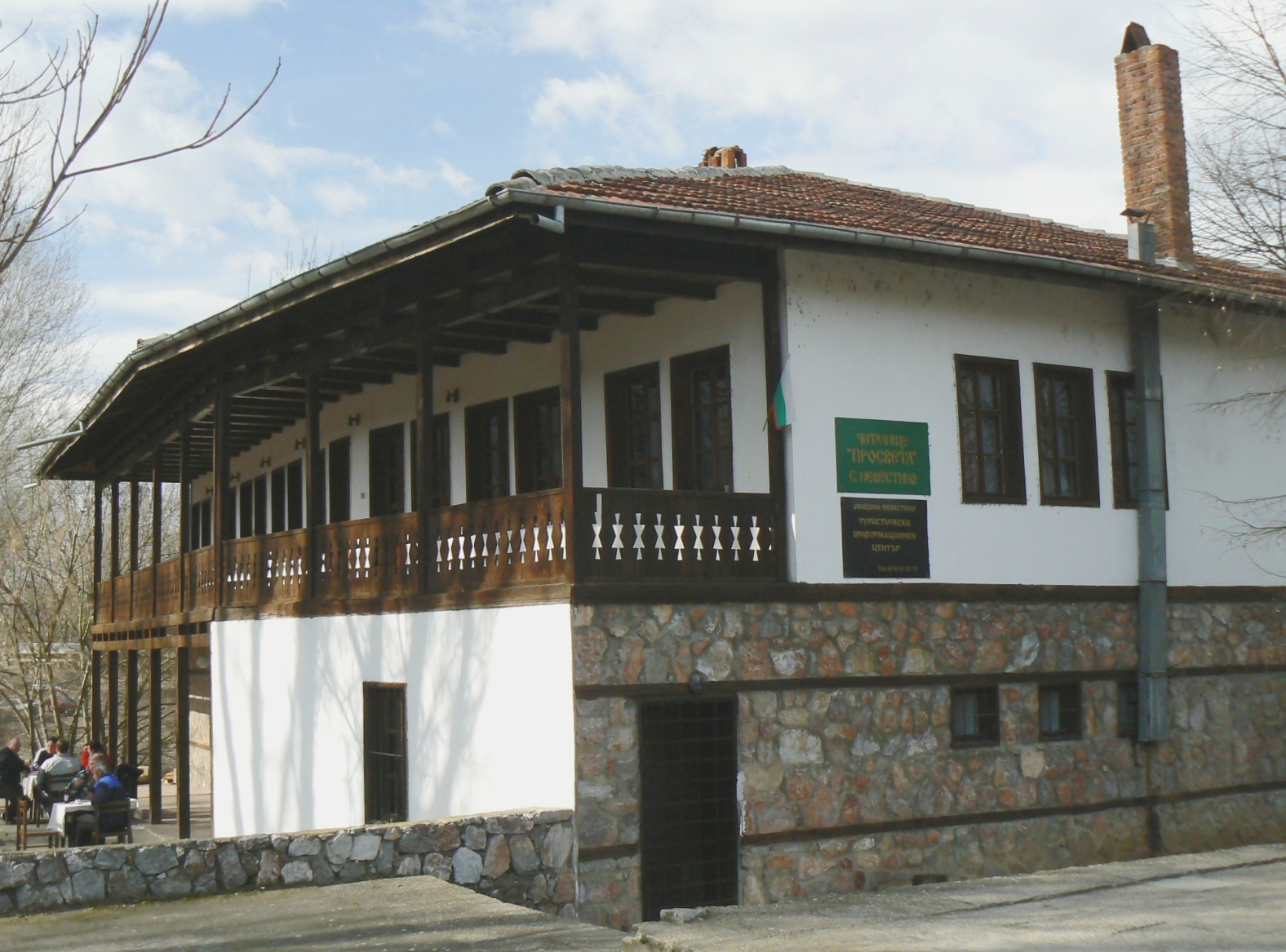 Culture house "Prosveta" in village Nevestino, Kyustendil district, Bulgaria